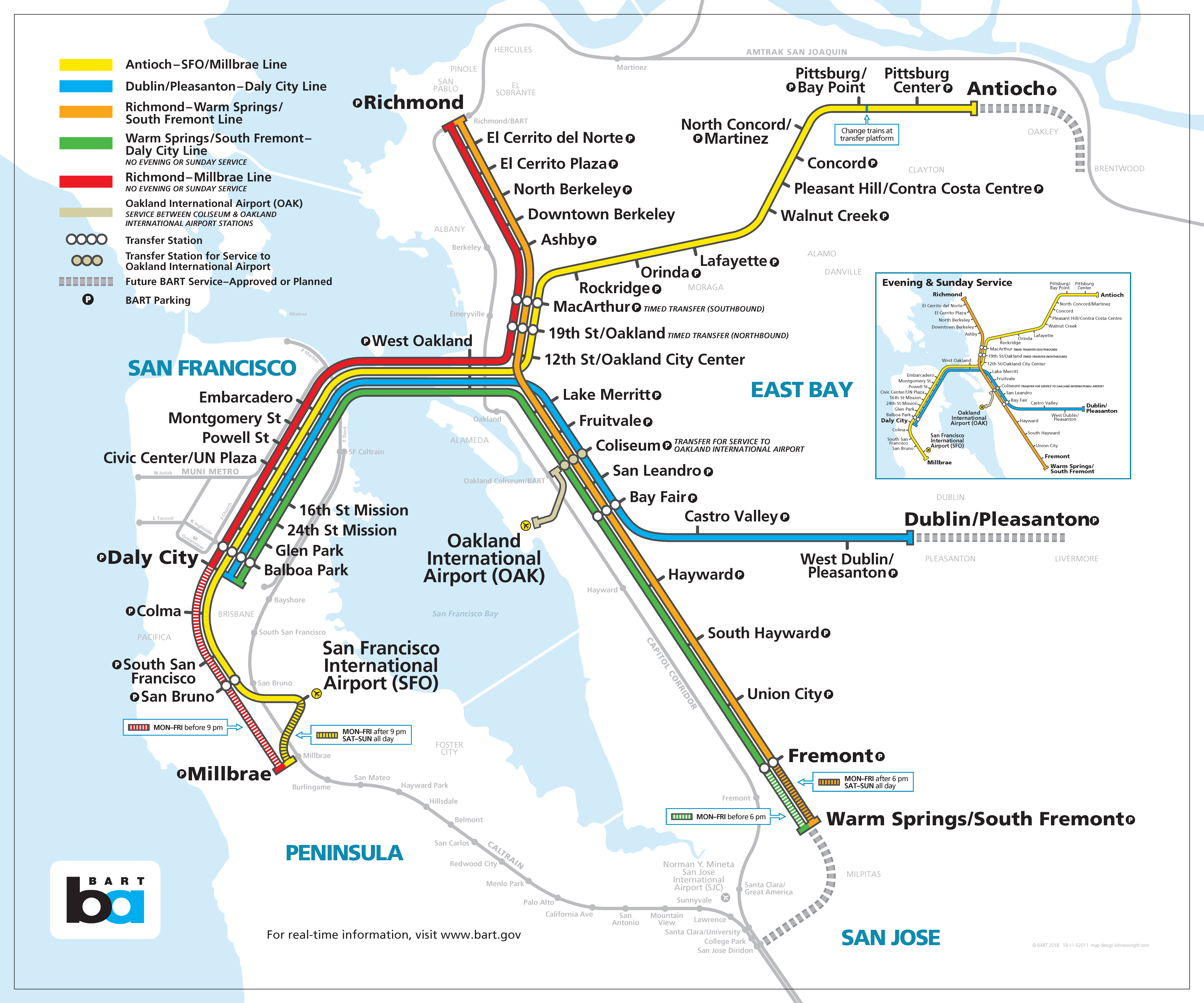 BART system map accurate to the May 26, 2018 opening of the eBART line